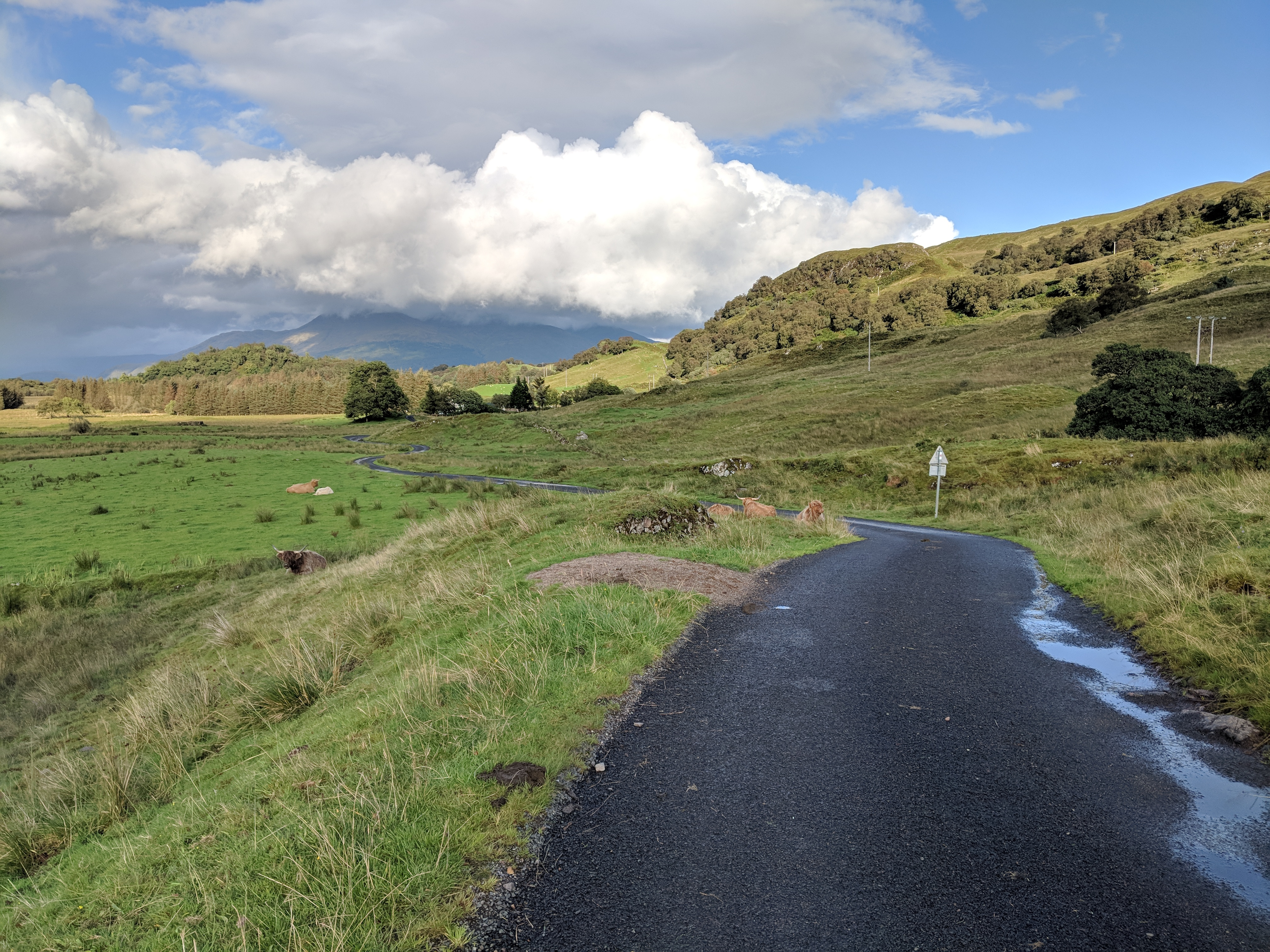 Newly surfaced road in the Scottish Highlands, including Highland cows. The road is part of the National Cycle Route 78.